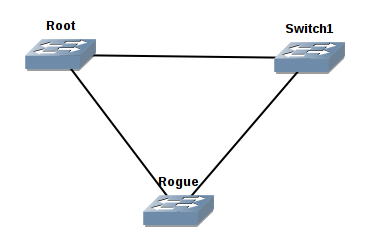 Switch topology for illustration of STP attack